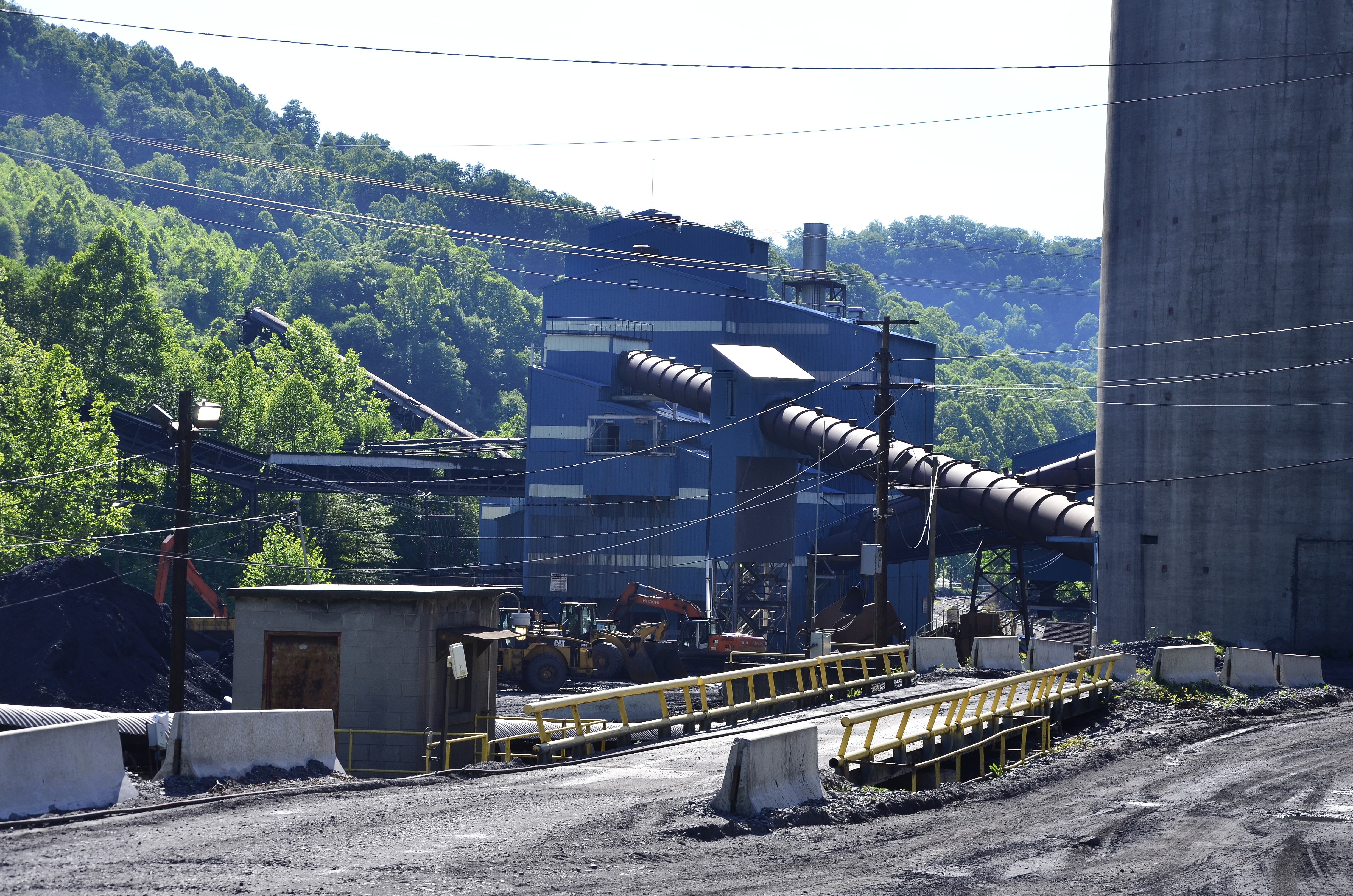 Pocahontas Coal Plant — in Eastgulf, Raleigh County, West Virginia.